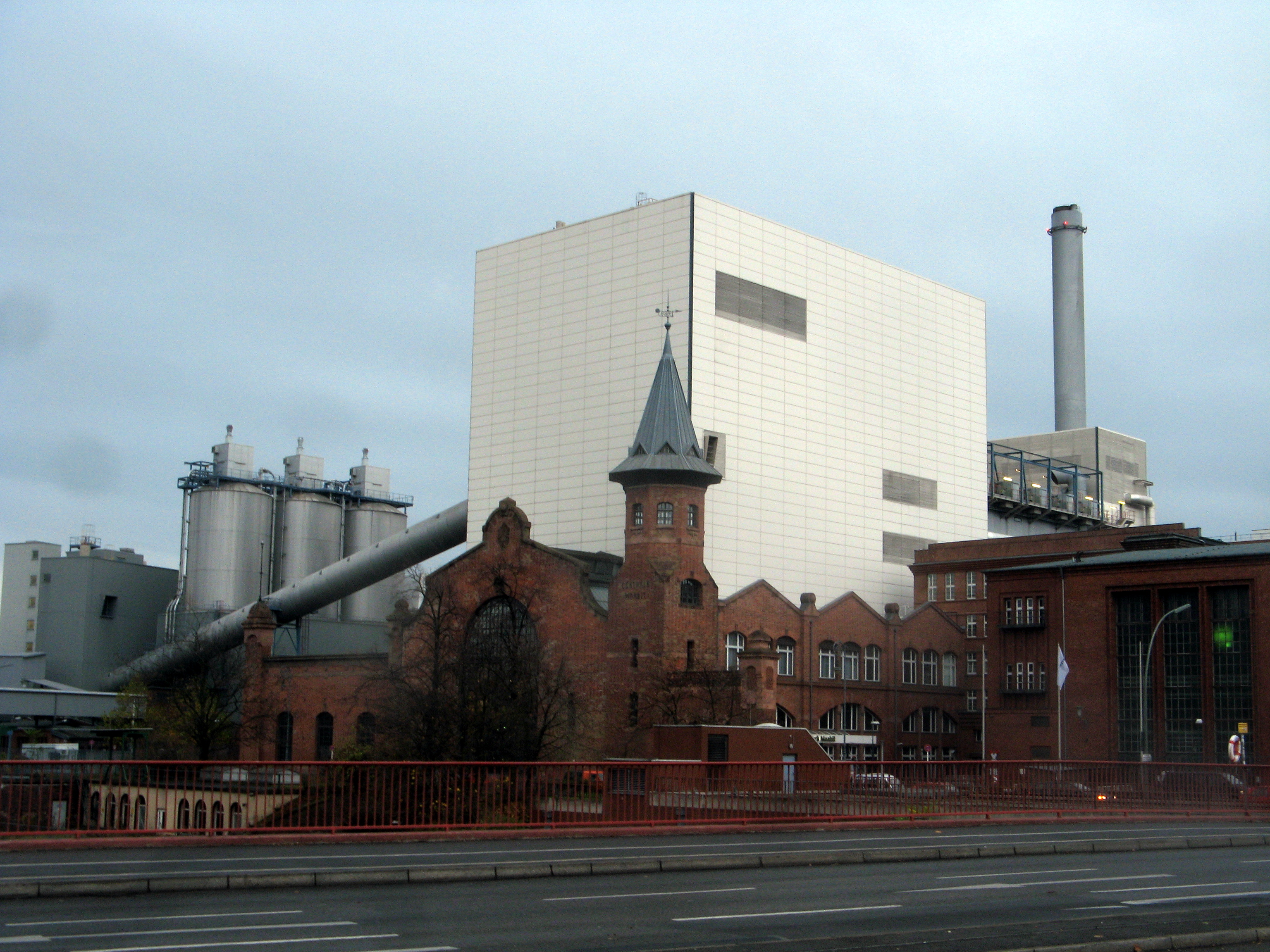 Combined heat and powerplant Moabit at Friedrich-Krause-Ufer